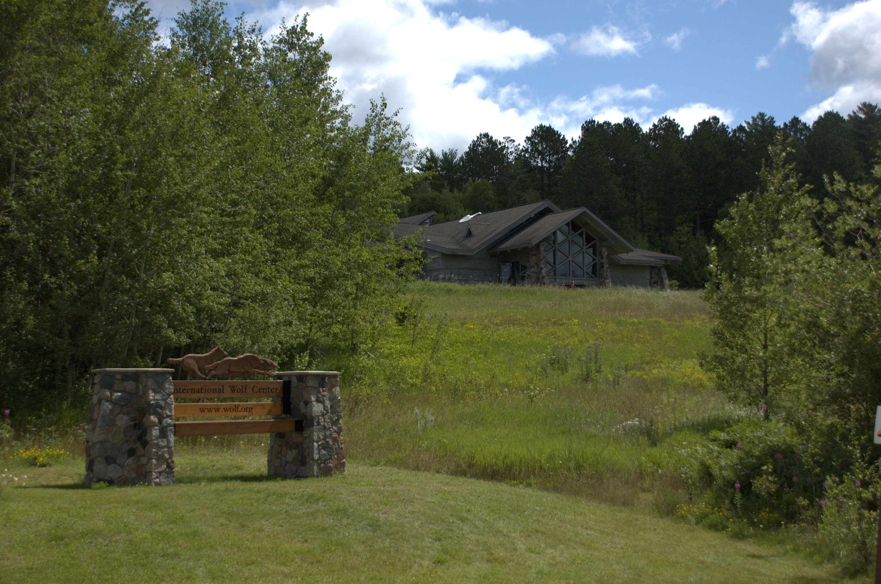 Northen MN